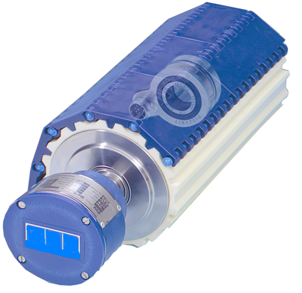 Interroll production center